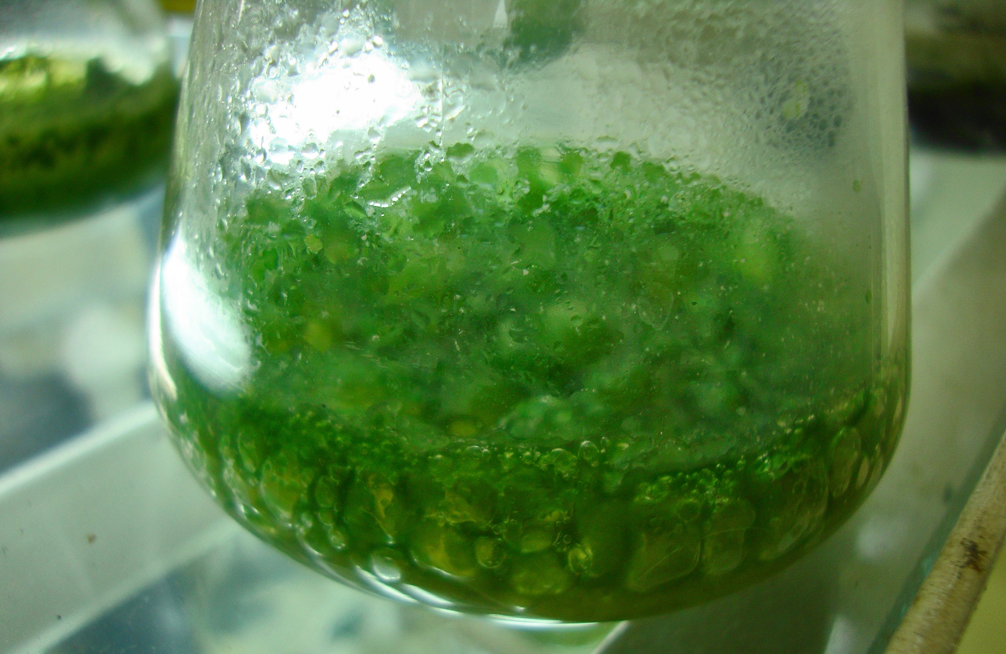 Cyanobacteria cultured in specific media. Cyanobacteria can be helpful in agriculture as they have the capability to fix atmospheric nitrogen to soil. This nitrogen is helpful to the crops. Cyanobacteria is used as a bio-fertilizer.